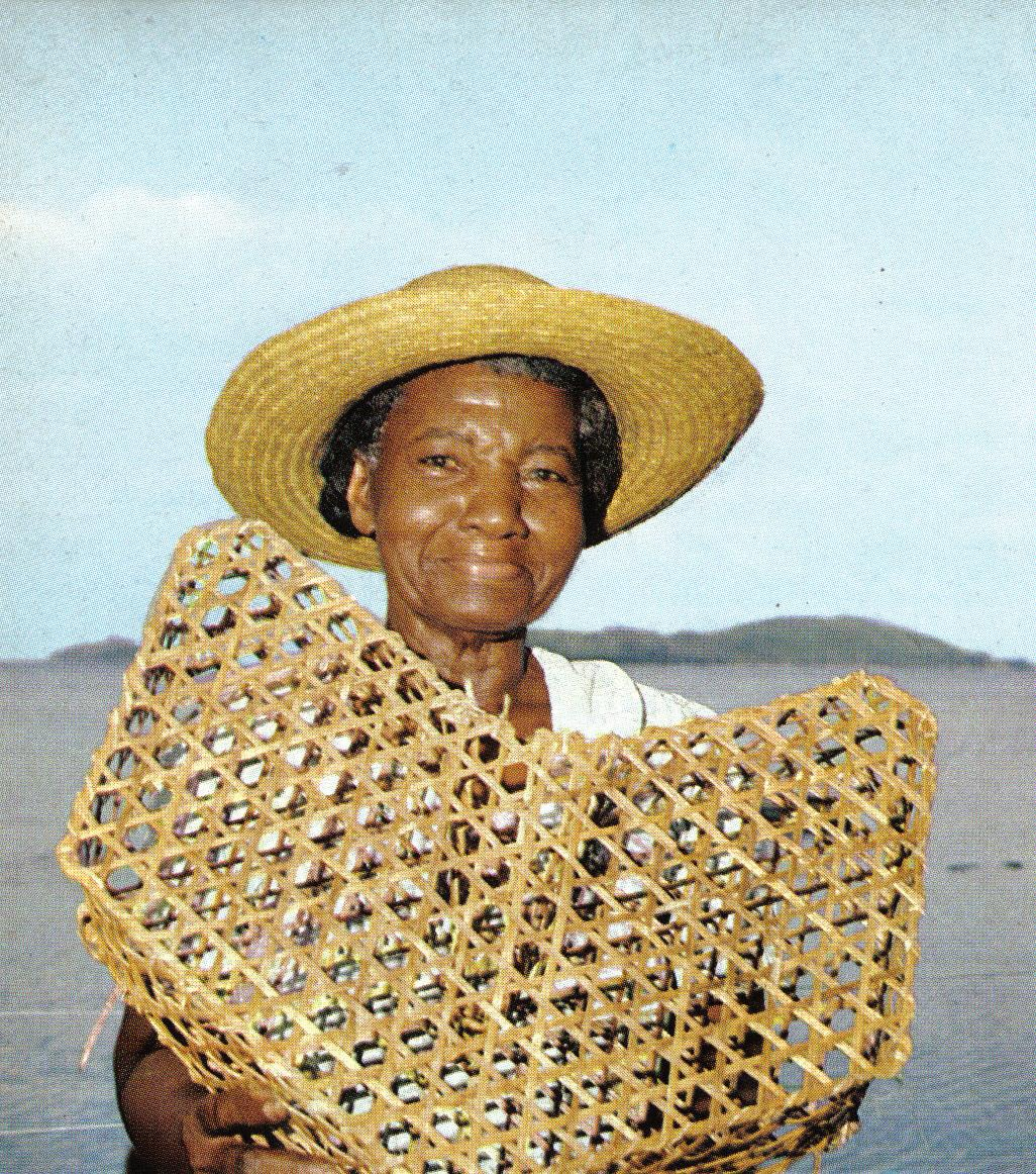 Seychelloise and model fish trap.